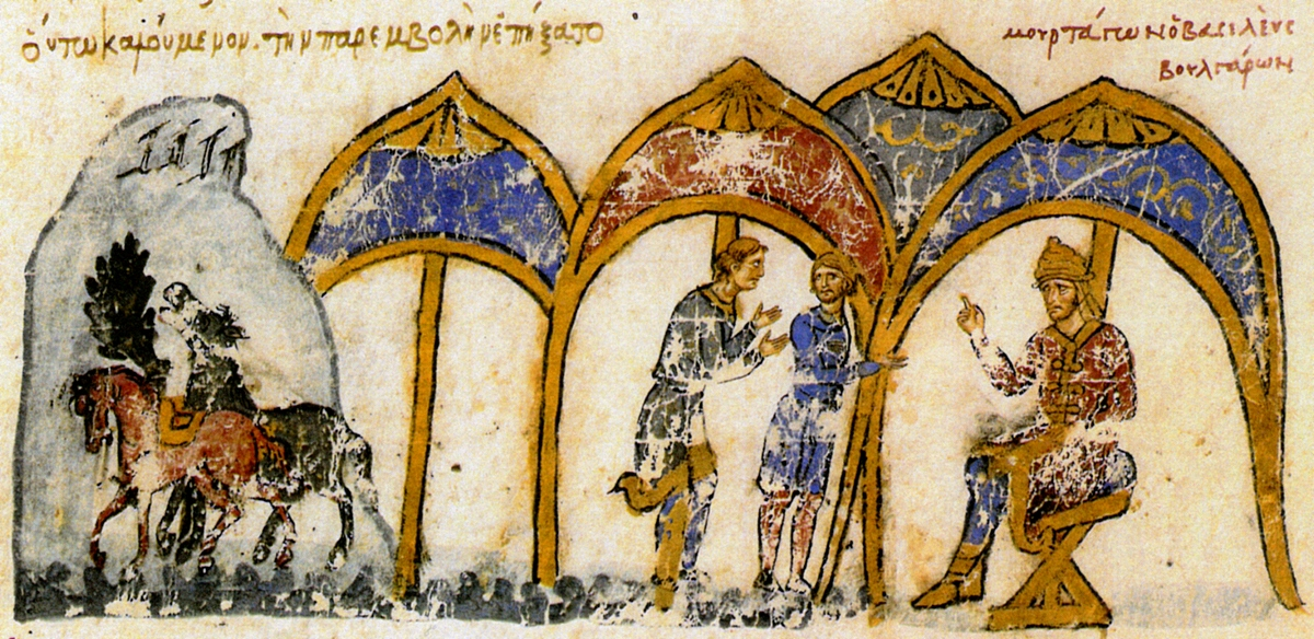 Skyllitzes Matritensis, fol. 35r, detail. Miniature: The Bulgarian ruler Mortagon (Omurtag) receives envoys from the Byzantine Emperor Michael II (s. Tsamakda) or sends envoys to Michael II (s. Божилов). Text from the Chronicle of John Skylitzes: "... Meanwhile, the word having gone out through the whole world that the Roman emperor lay besieged and confined within his own walls, Mortagon, king of the Bulgars, sent him a secret message announcing that he would send help of his own free will and conclude a treaty with him. Either because he really did have pity on his fellow country men or because he resented the expense (he was the most parsimonious emperor there ever was), Michael thanked the Bulgar for his intentions but refused the proferred aid. ..." (Translated by John Wortley, in: John Skylitzes: A Synopsis of Byzantine History, 811-1057: Translation and Notes, p. 40) References: Ioannis Scylitzae Synopsis Historiarum. Editio Princeps. Rec. Ioannes Thurn, p. 37, in: Corpus Fontium Historiae Byzantinae 5 Series Berolinensis, 1973 Tsamakda V.: The illustrated chronicle of Ioannes Skylitzes in Madrid, p. 75-76 Божилов Ив.: Българите във Византийската империя, p. 169 Grabar A., Manoussacas M.: L'illustration du manuscript de Skylitzes de Madrid, p. 36 Божков А.: Миниатюри от Мадридския ръкопис на Йоан Скилица, p. 195-196